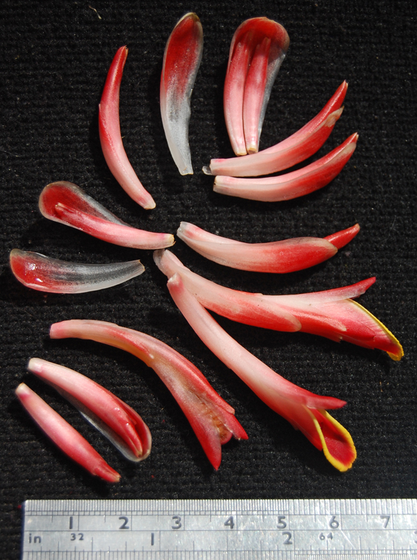 Torch ginger Etlingera hemisphaerica, individual flower. Darmaga, Bogor, West Java.